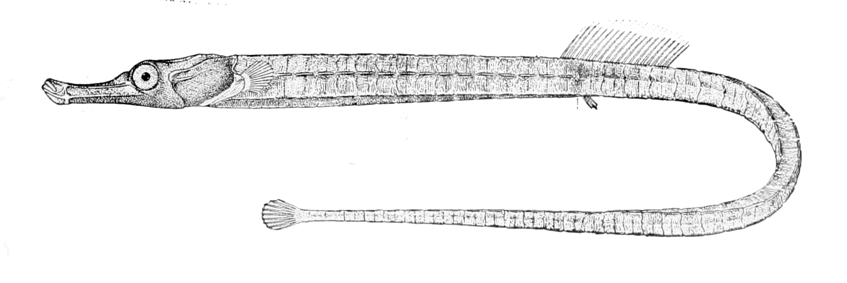 Festucalex erythraeus